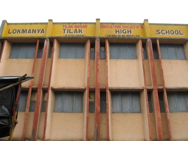 Lokmanya Tilak High School, front entry view